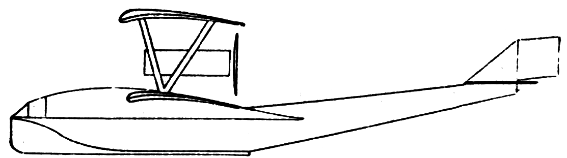 Zeppelin-Lindau Rs.I profile drawing from L'Aerophile August,1921